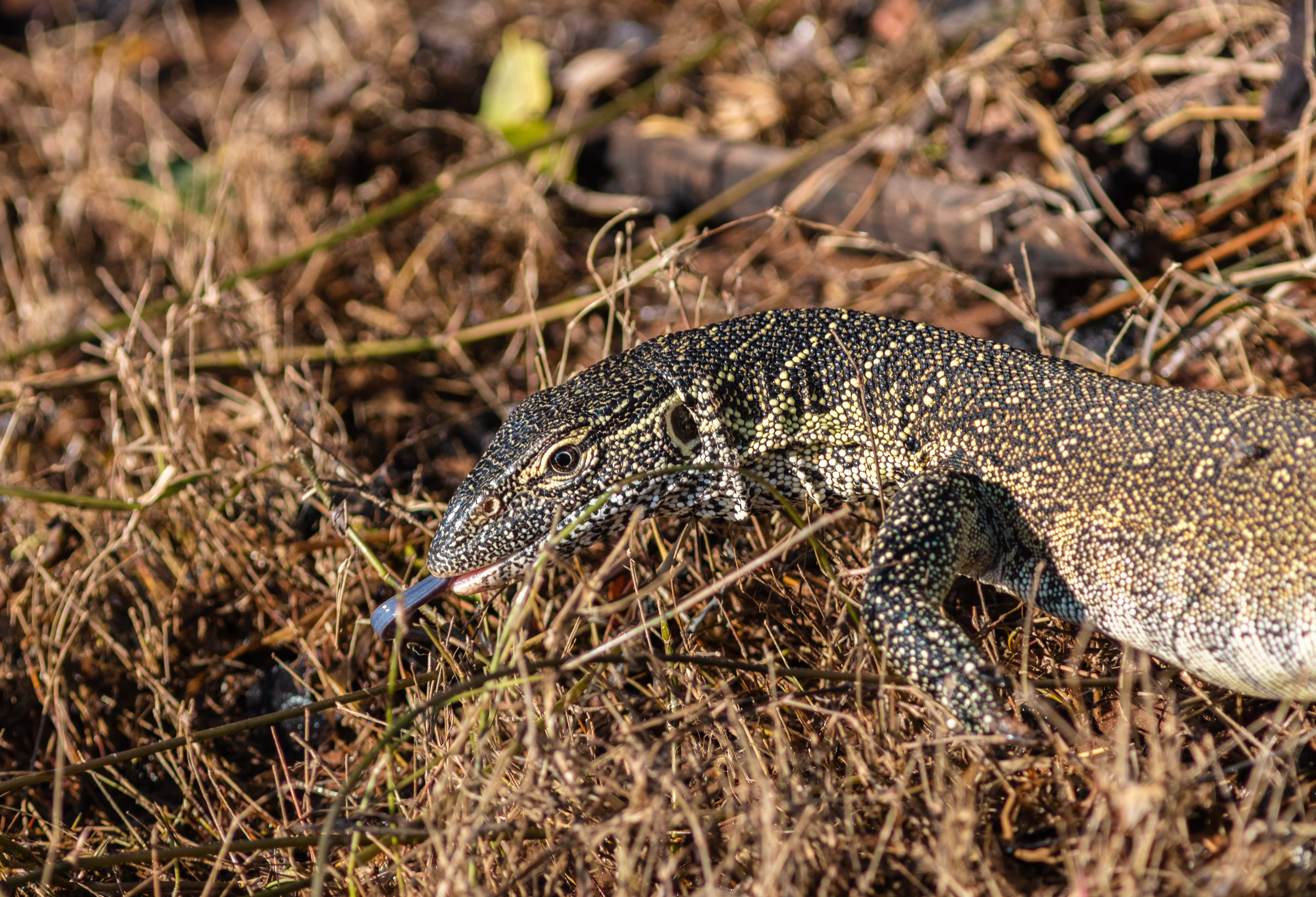 Nile monitor (Varanus niloticus), Chobe National Park, Botswana